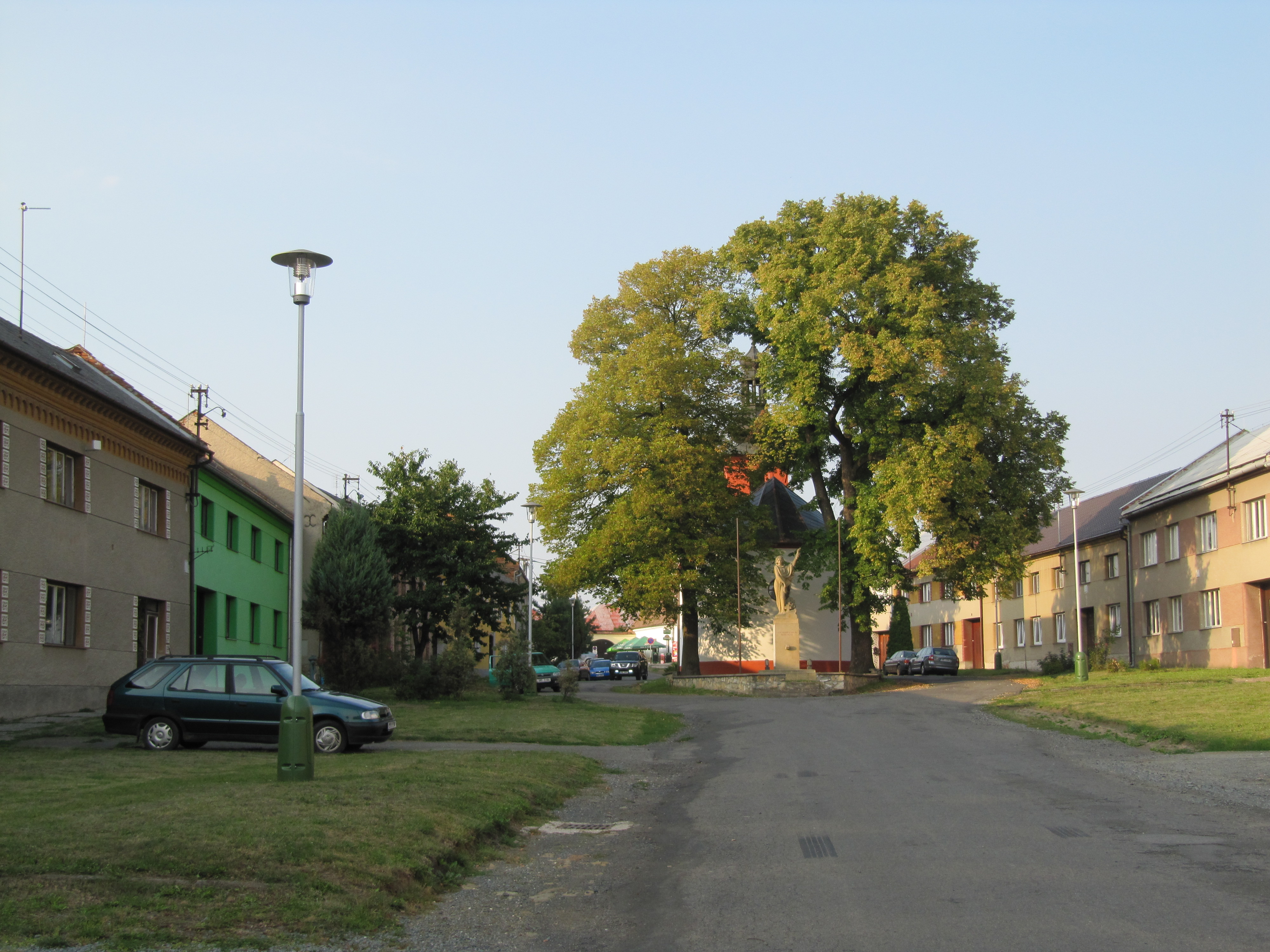 Ústín in Olomouc District, Czech Republic. Village green.